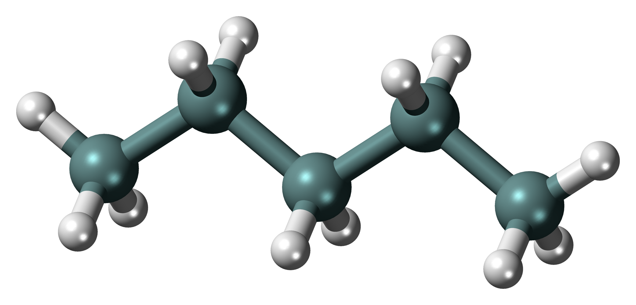 Ball-and-stick model of the pentasilane molecule, an analog of pentane where the carbon is replaced by silicon. Colour code: Hydrogen, H: white Silicon Si: blue-grey